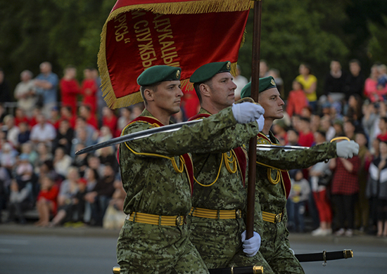 Командующий войсками ЗВО проверил готовность военнослужащих к параду в Минске, посвящённому Дню независимости Белоруссии